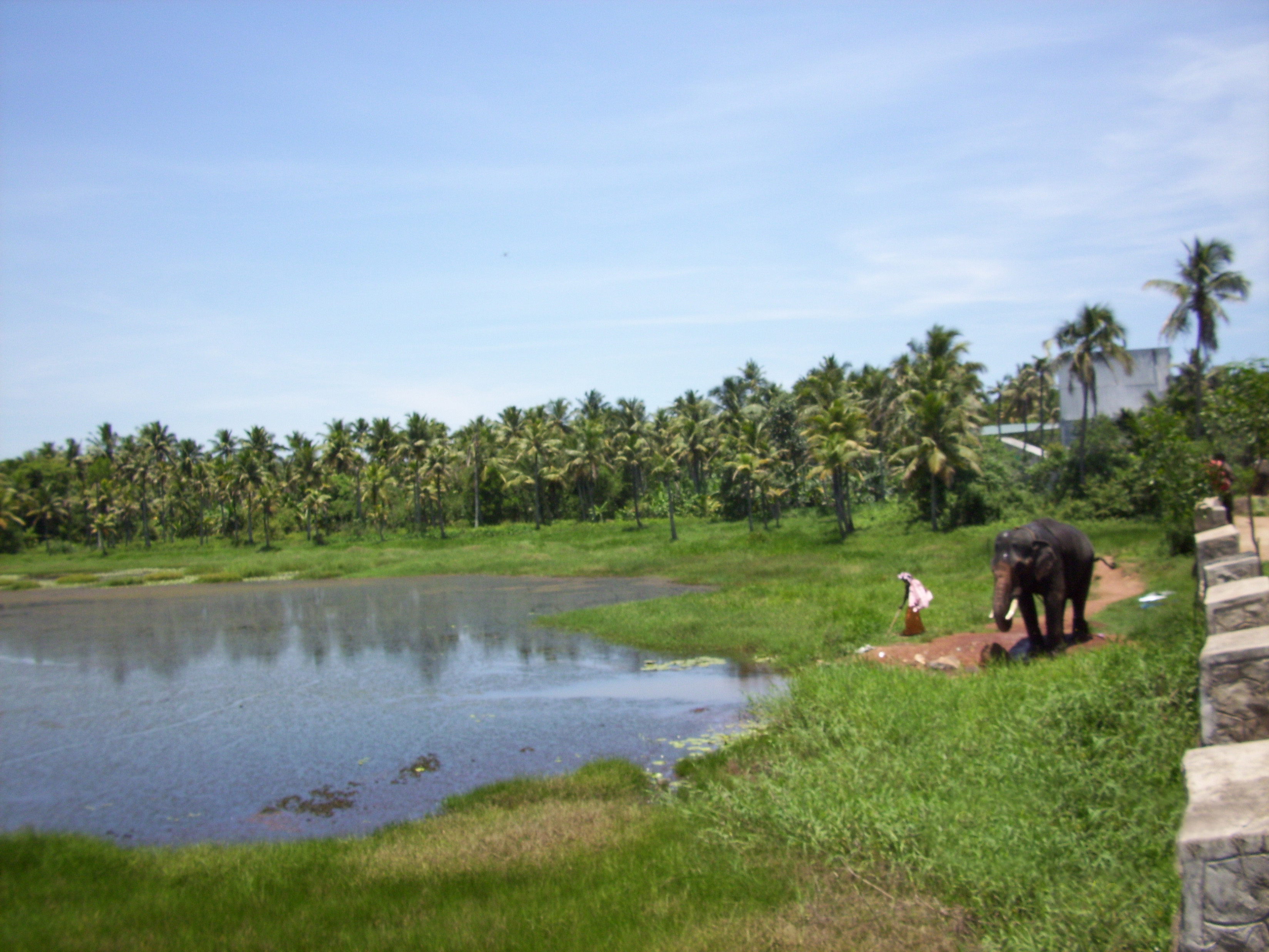 Elephant at Bund-Acros Road